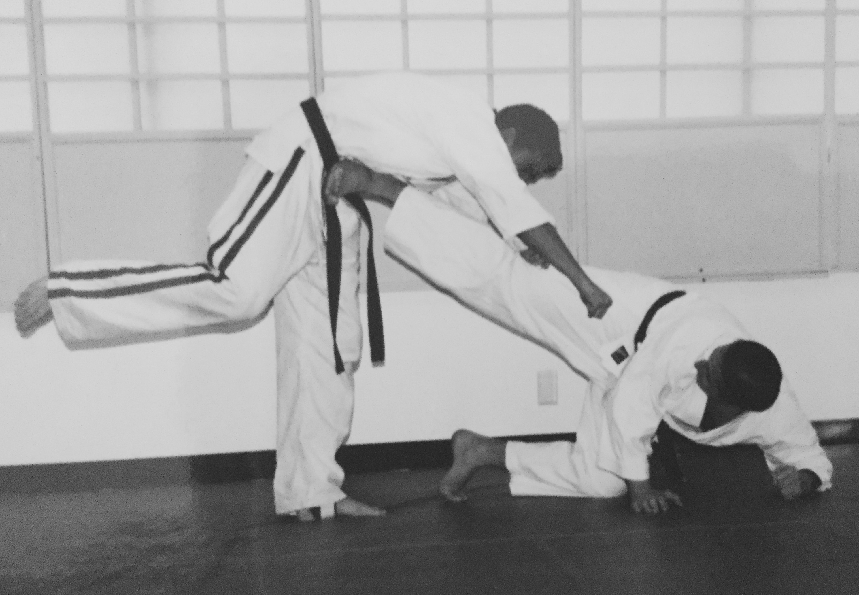 Shihan Luca Knight